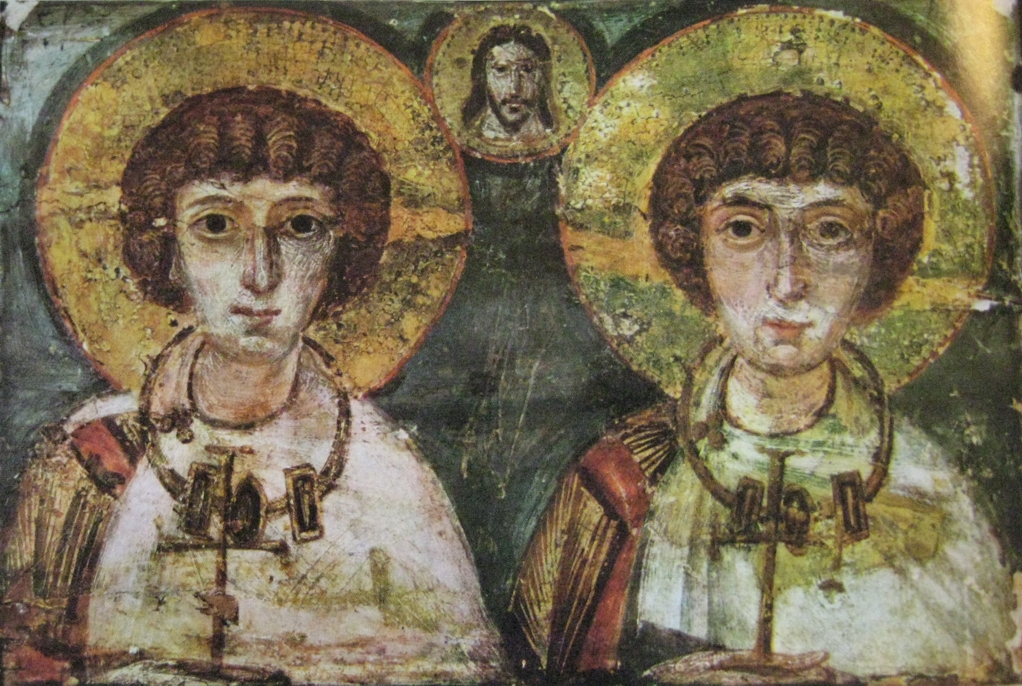 Depicted person: Sergius and Bacchus – Early saints